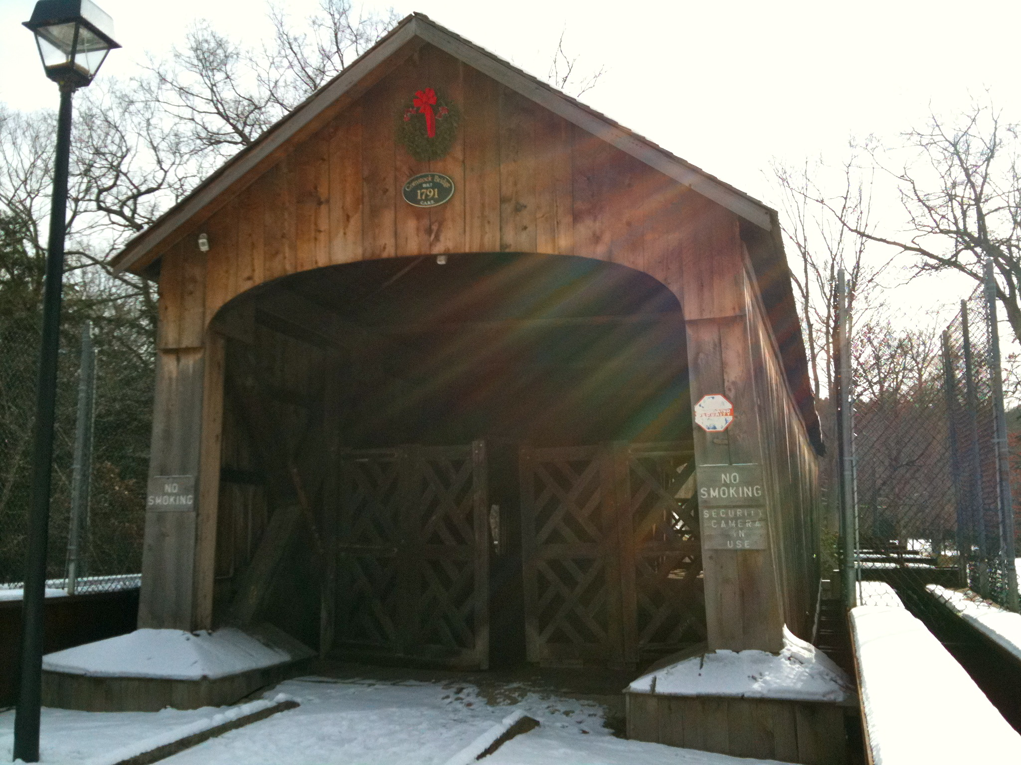 Salmon River Trail Comstock Covered Bridge from state forest parking lot side.